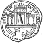 Cyprian coin of Caracalla. With the sacred cone, or symbol of Aphrodite, in a conventional representation of the temple at Paphos.